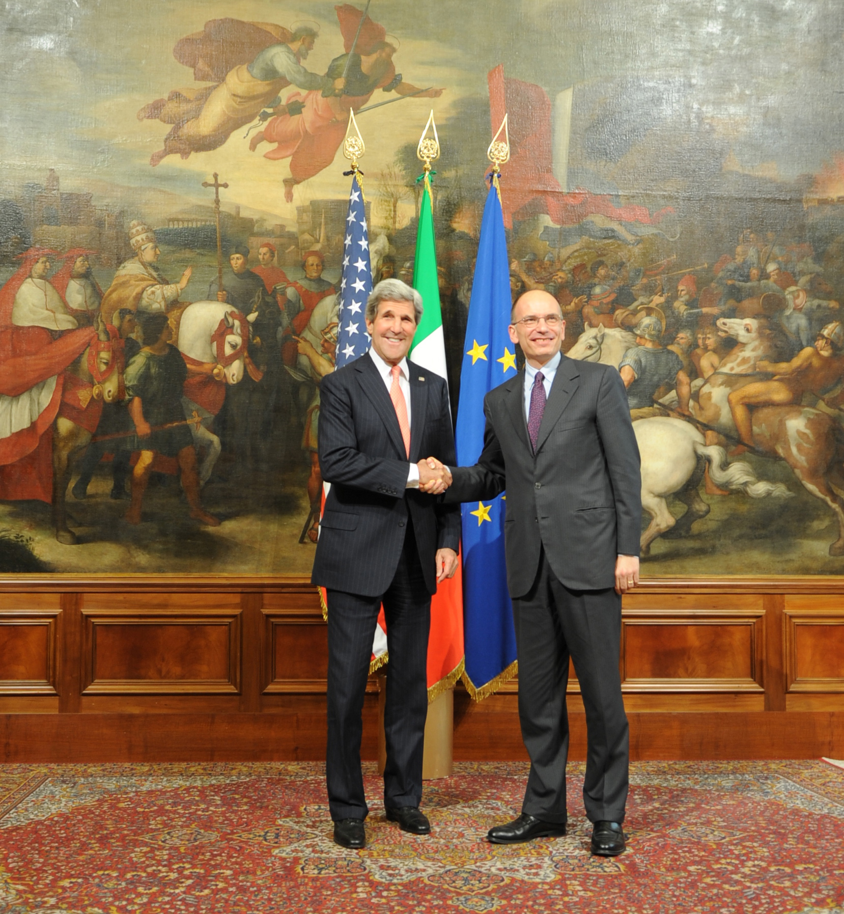 U.S. Secretary of State John Kerry meets with Italian Prime Minister Enrico Letta on May 9, 2013, at Palazzo Chigi in Rome, Italy. [State Department photo/ Public Domain]